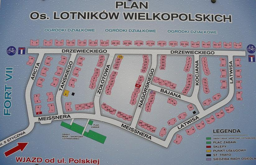 Poznan - Lotnikow Wielkopolskich District (plan).